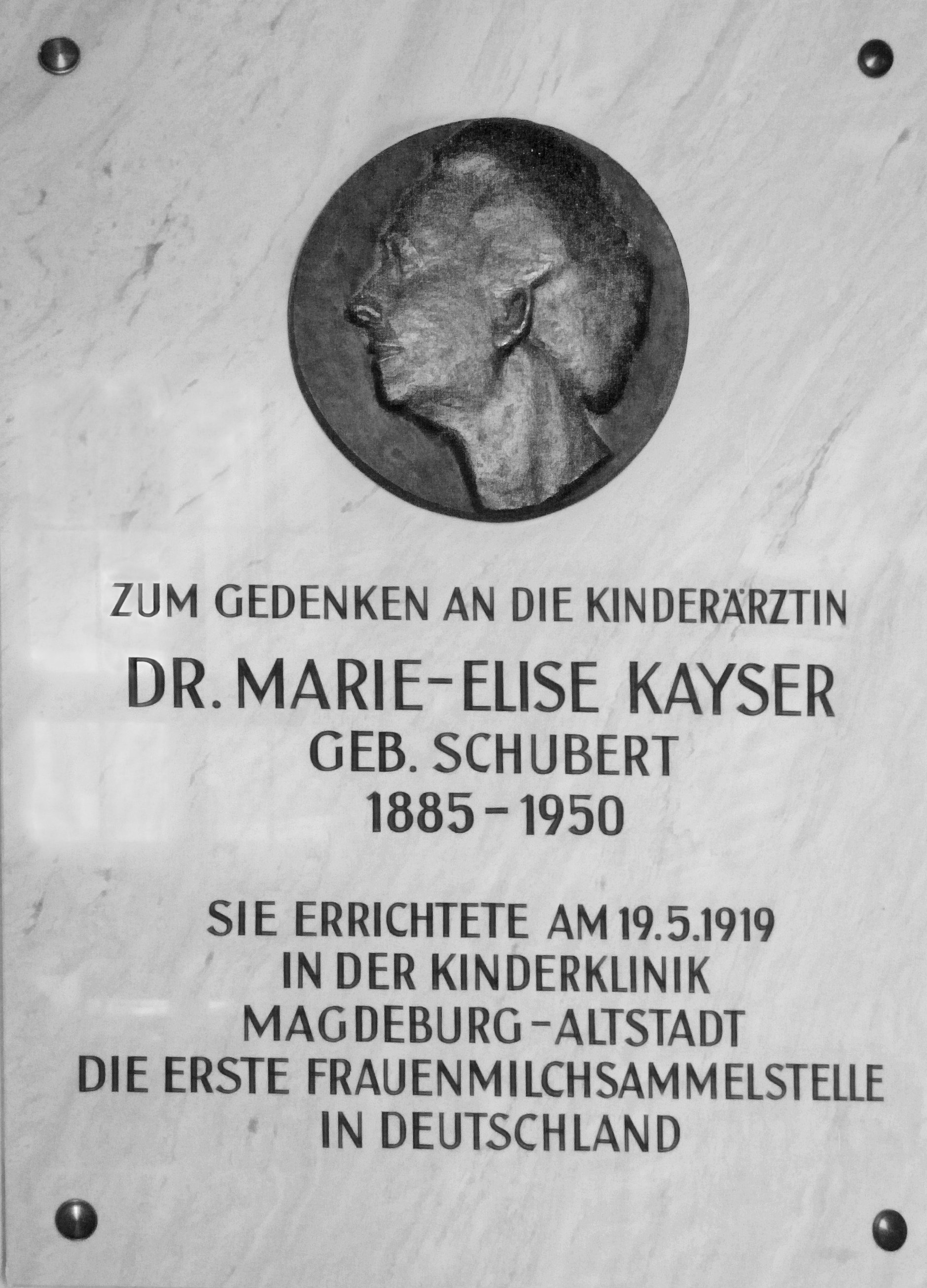 Marie Elise Kayser (1885-1950), German pediatrician, founder of the first milk bank in Germany